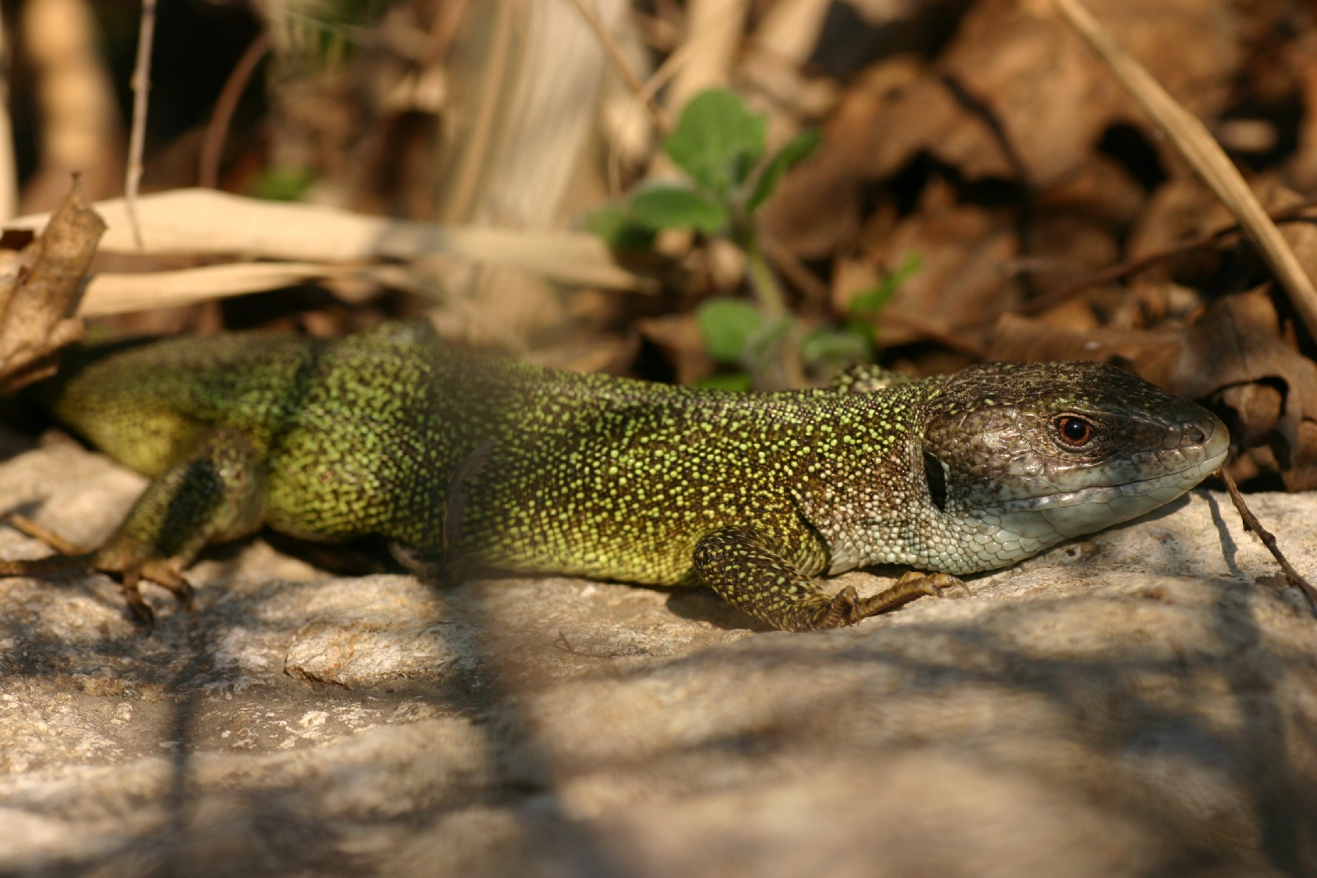 European green lizard (Lacerta viridis). Photographed in Mödling (Lower Austria).